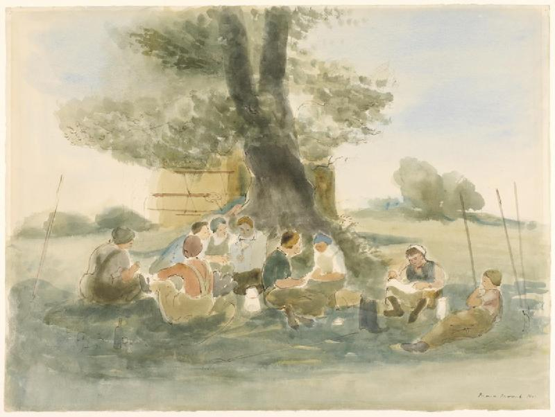 A group of Womens Land Army workers eat lunch under a tree with a harvester in the background.